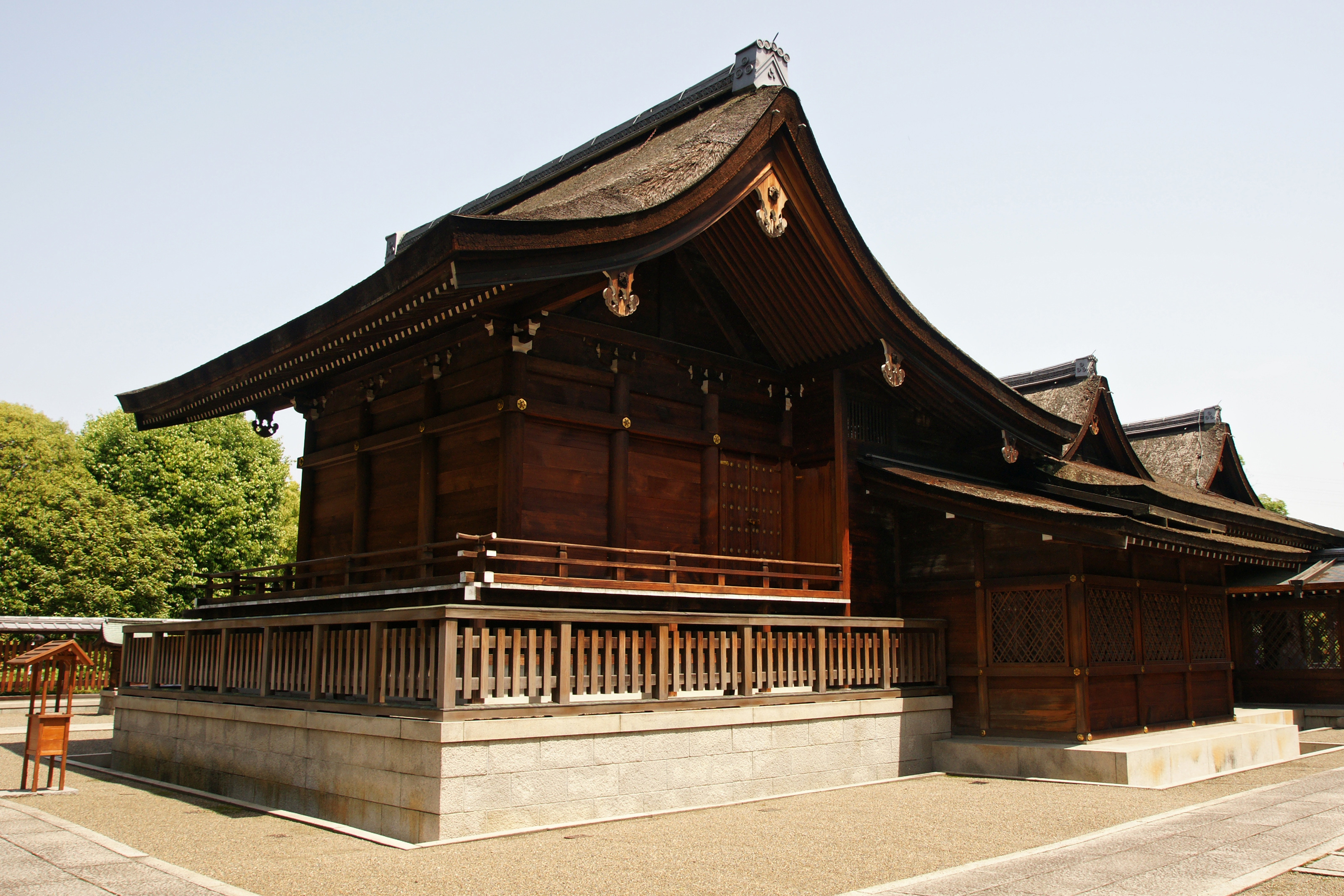 Jonangu in Fushimi, Kyoto, Kyoto prefecture, Japan